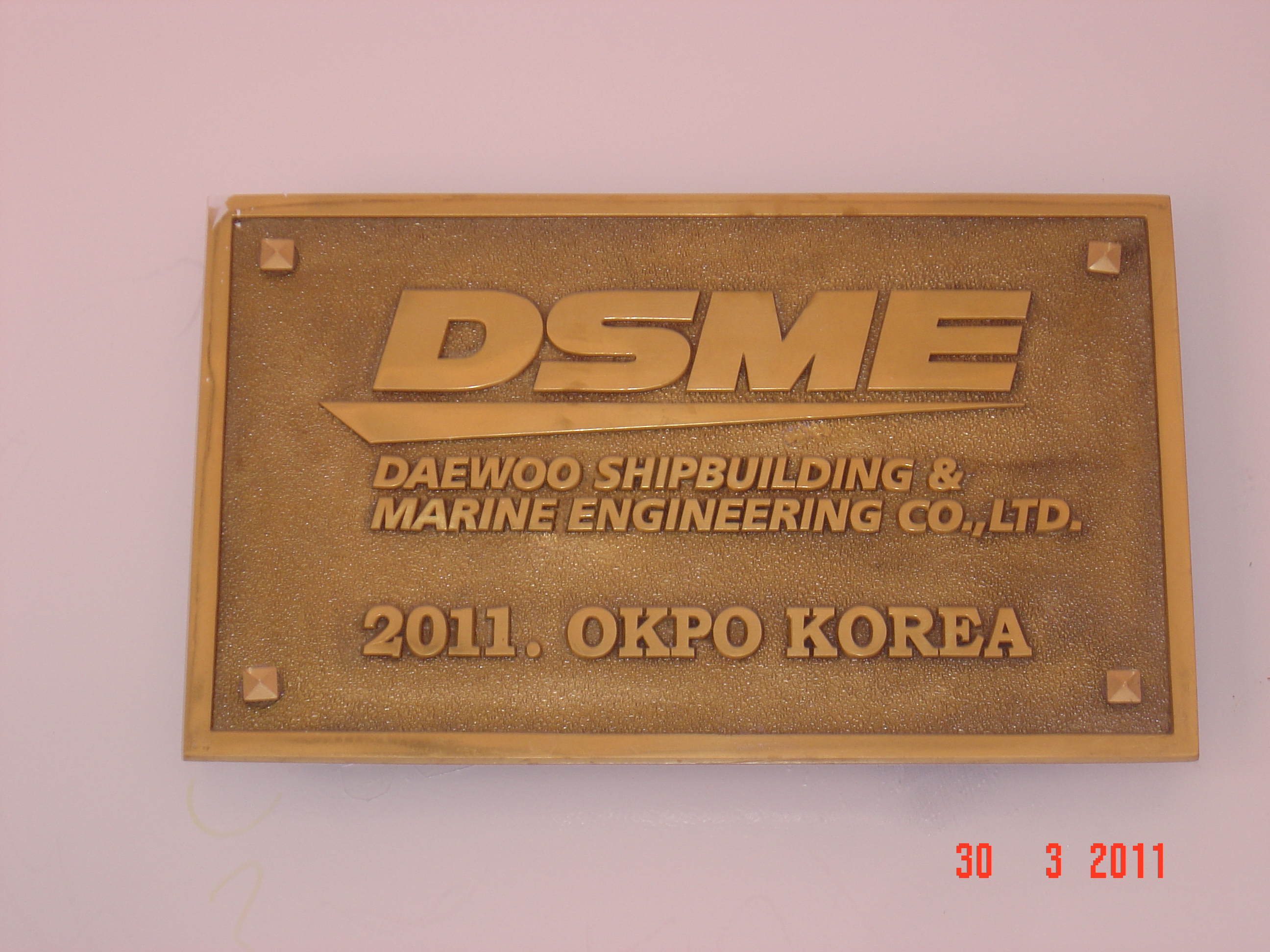 Vale Brasil